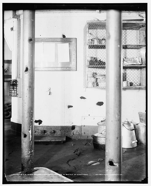 U.S.S. Iowa, damage from Spanish fire in Battle of Santiago 1898 -- LC-D4-20450 det 4a14278 These images reside on the Library of Congress server, these indexes are provided by NavSource to make navigating their site quicker and easier. USS Iowa (BB 4) -- Pictures from the Detroit Publishing Company Collection of the Library of Congress. -- These pictures show views of USS Iowa (BB 4) related to the Battle of Santiago (1898) Source: [1]